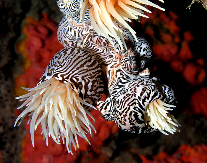 Striped colonial anemones from East Timor